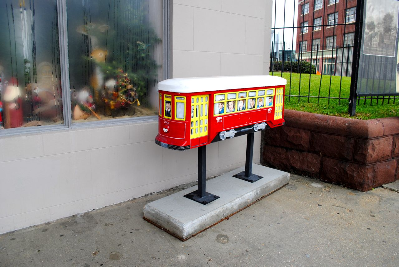 New Orleans Streetcars, photo taken in 2009.